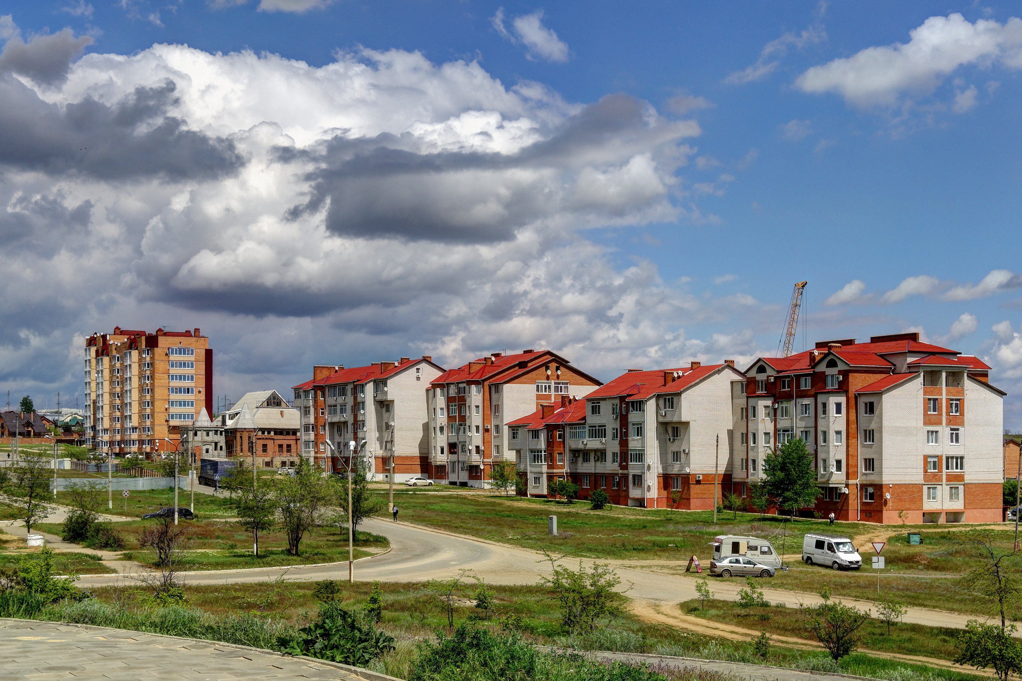 Elista, Esambaeva street